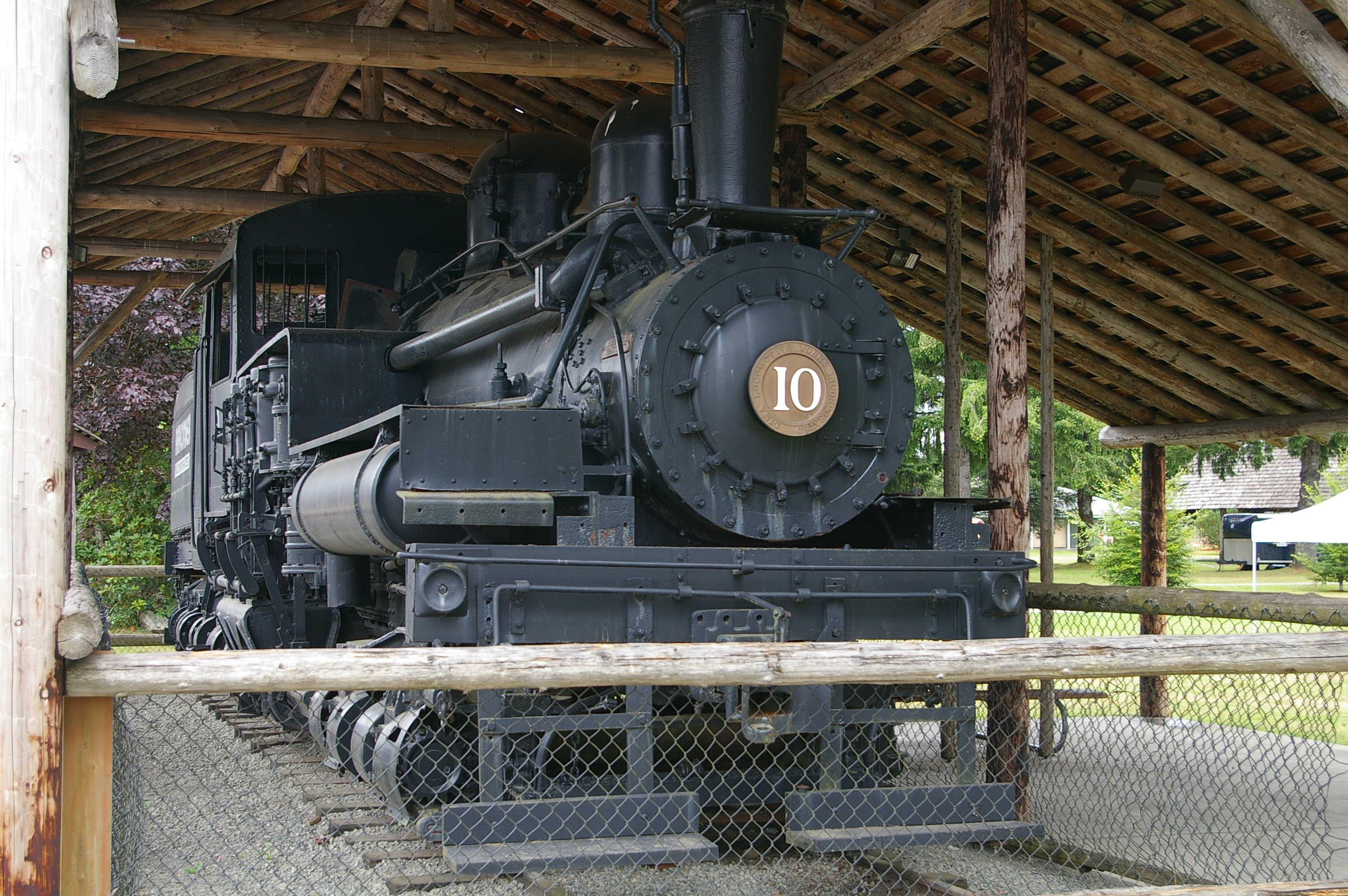 Forks, WA Rayoneer #10, a rare Shay Engine